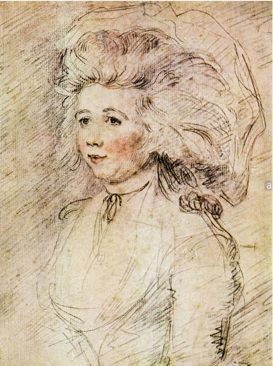 Anna Maria Woodforde known as Nancy. Housekeeper and diarist by Samuel Woodforde (after). guess at 1800